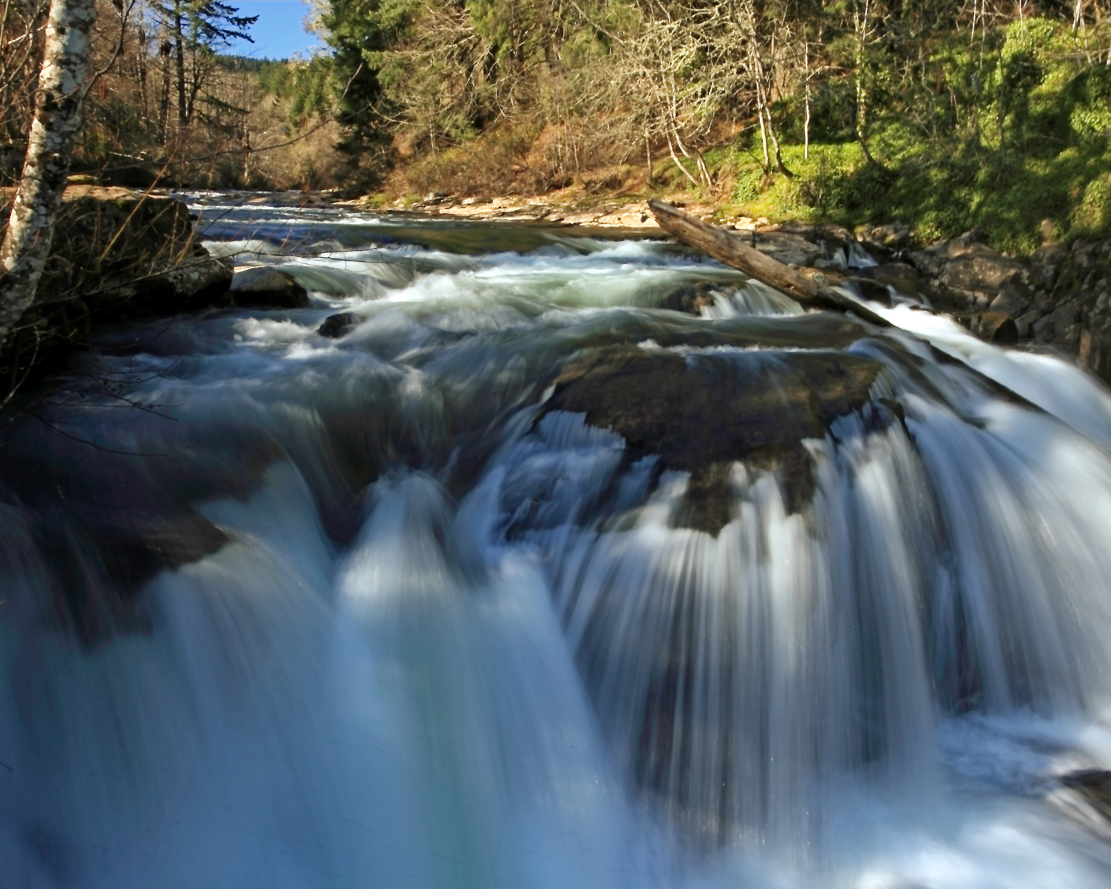 Falls City, Oregon.